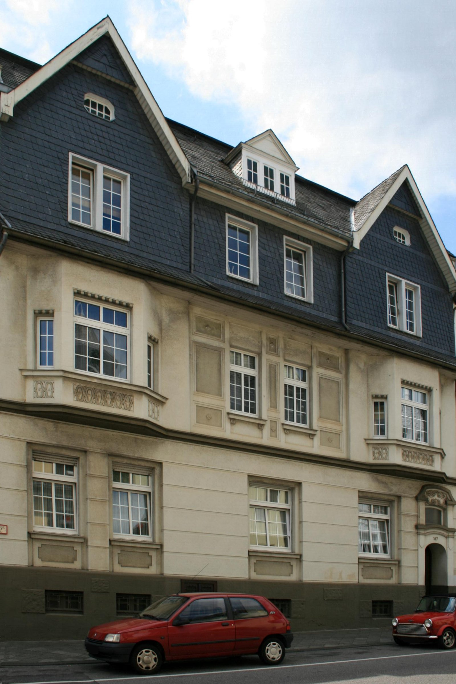 Cultural heritage monument No. L 038 in Mönchengladbach